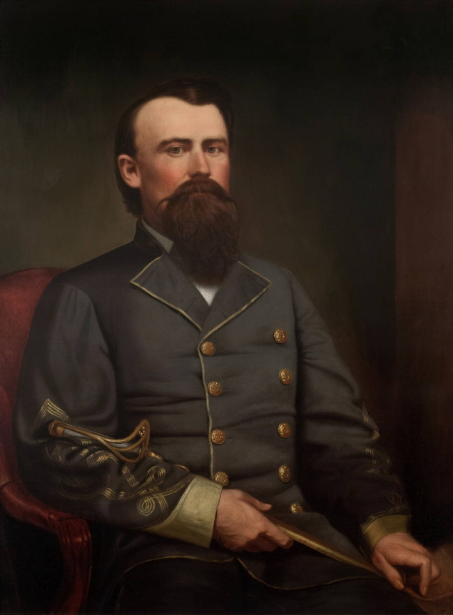 Portrait of General Joseph O. Shelby, by George Caleb Bingham, State Historical Society of Missouri